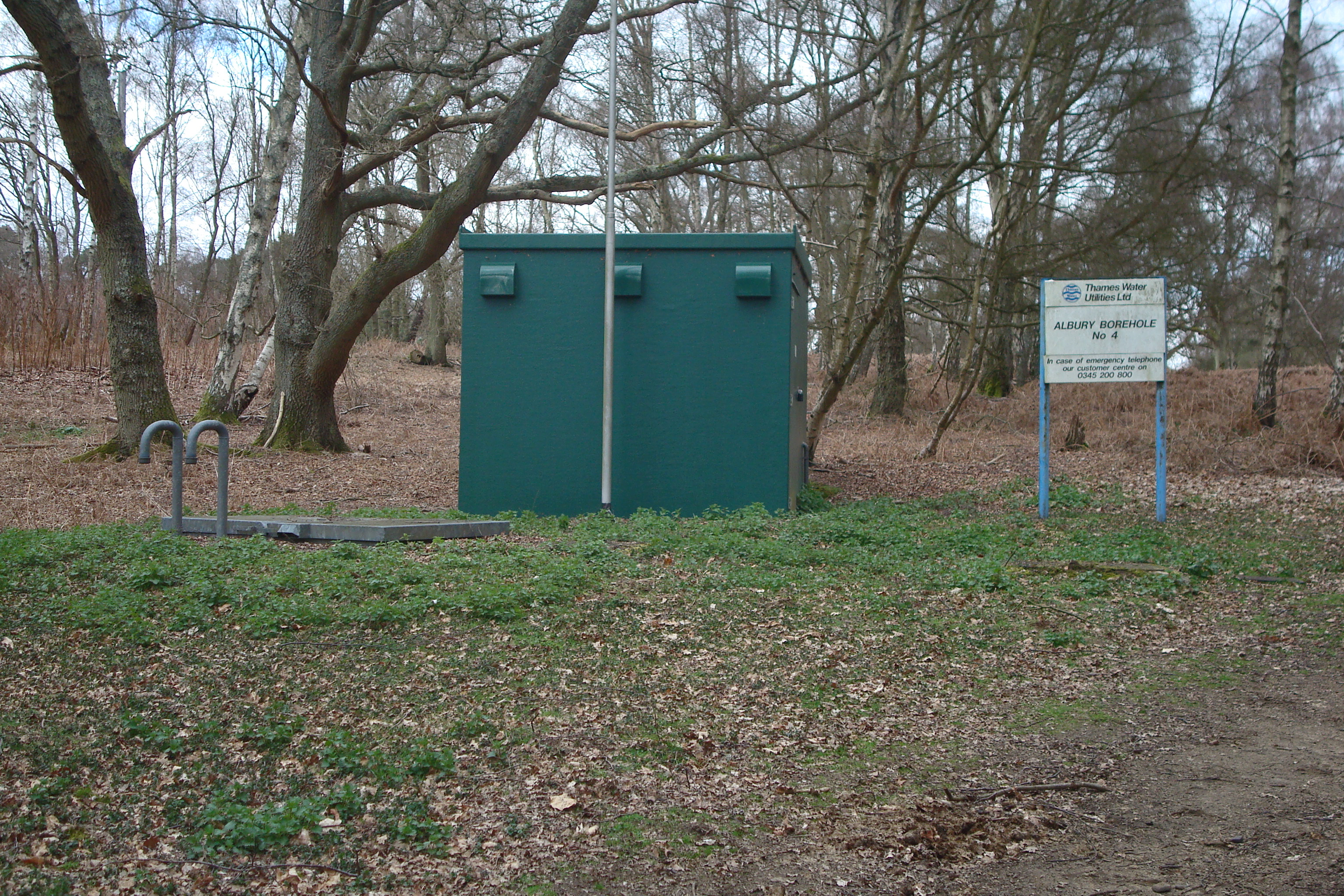 A Thames Water borehole into the chalk aquifer under the North Downs, England at Albury. my picture, March 2009